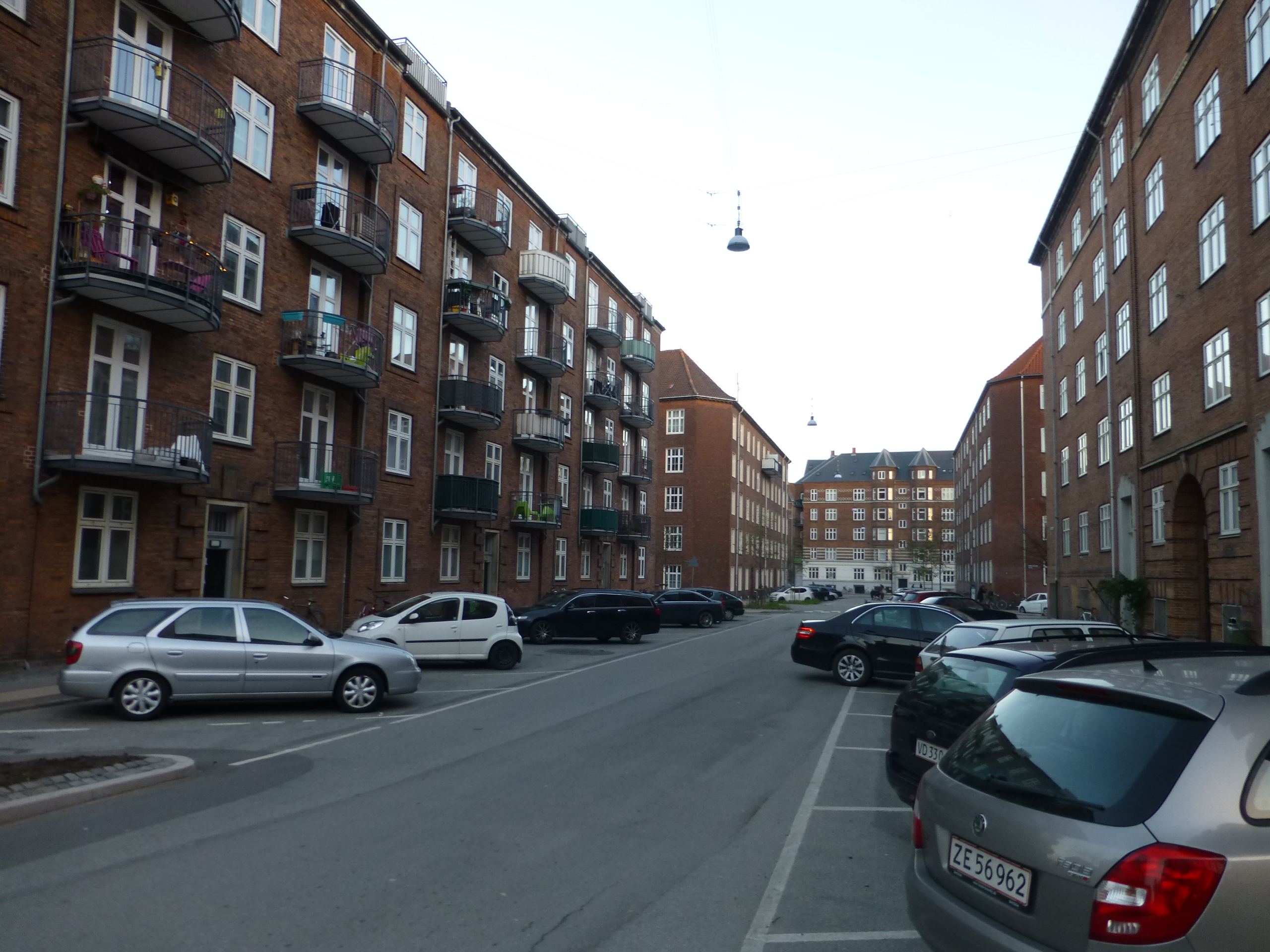 The street Alsgade in Vesterbro in Copenhagen.